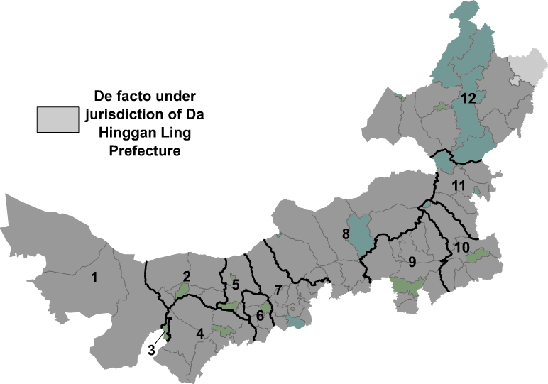 Map of prefectures of Nei Mongol Autonomous Region (Inner Mongolia)